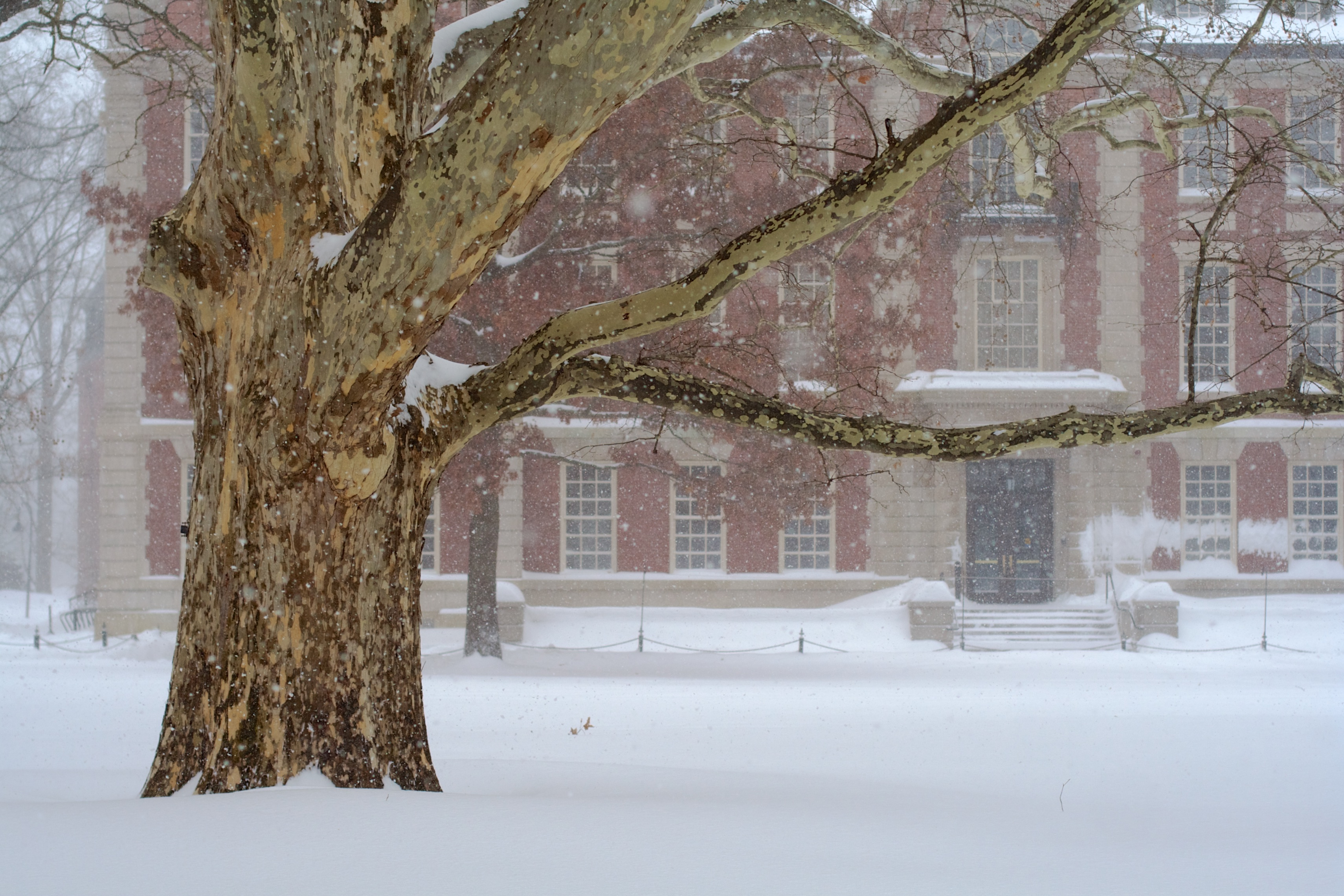 Snowstorm on the Smith College campus in Massachusetts.